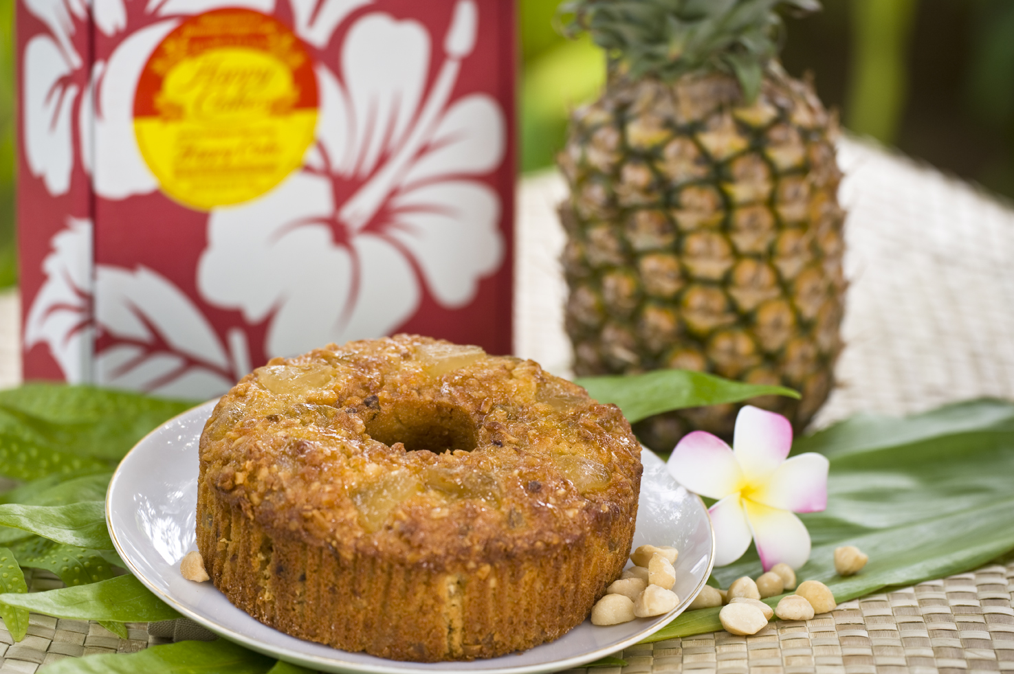 Hawaiian fruit cake known as Happy Cake